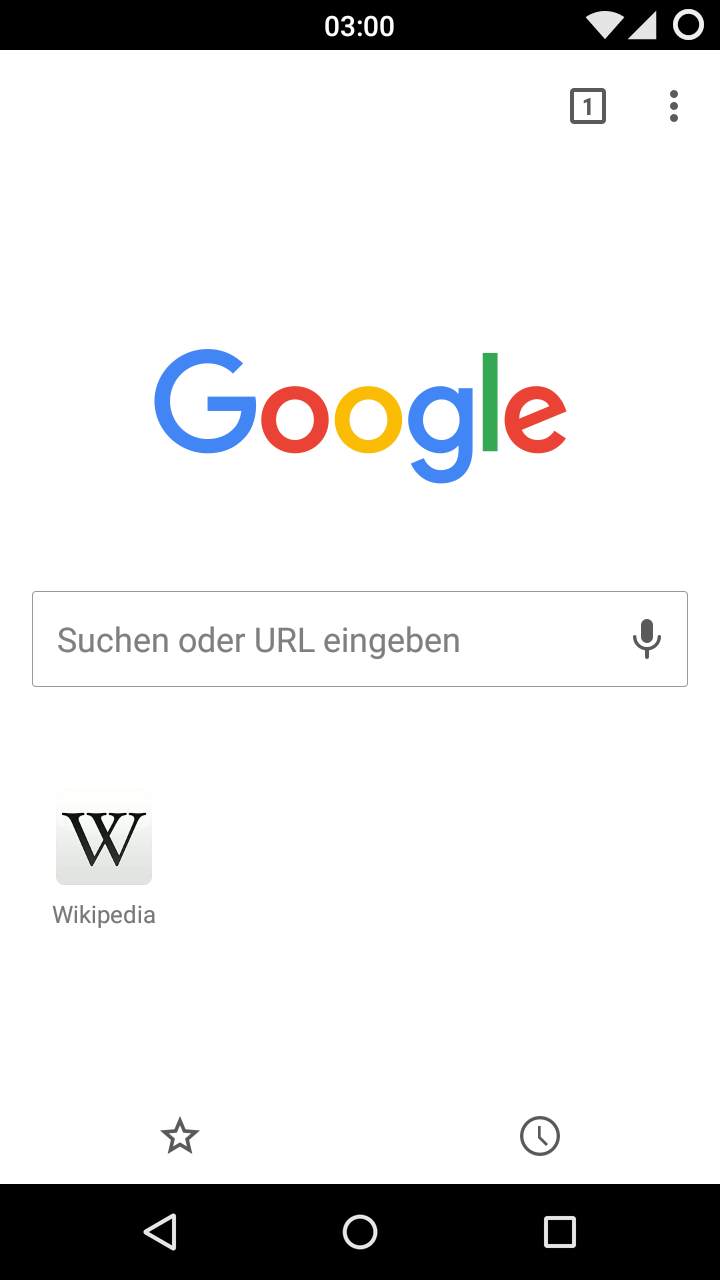 Screenshot of Google Chrome version 46 running on Android 5.1.1 (Motorola Moto G, CyanogenMod 12.1)